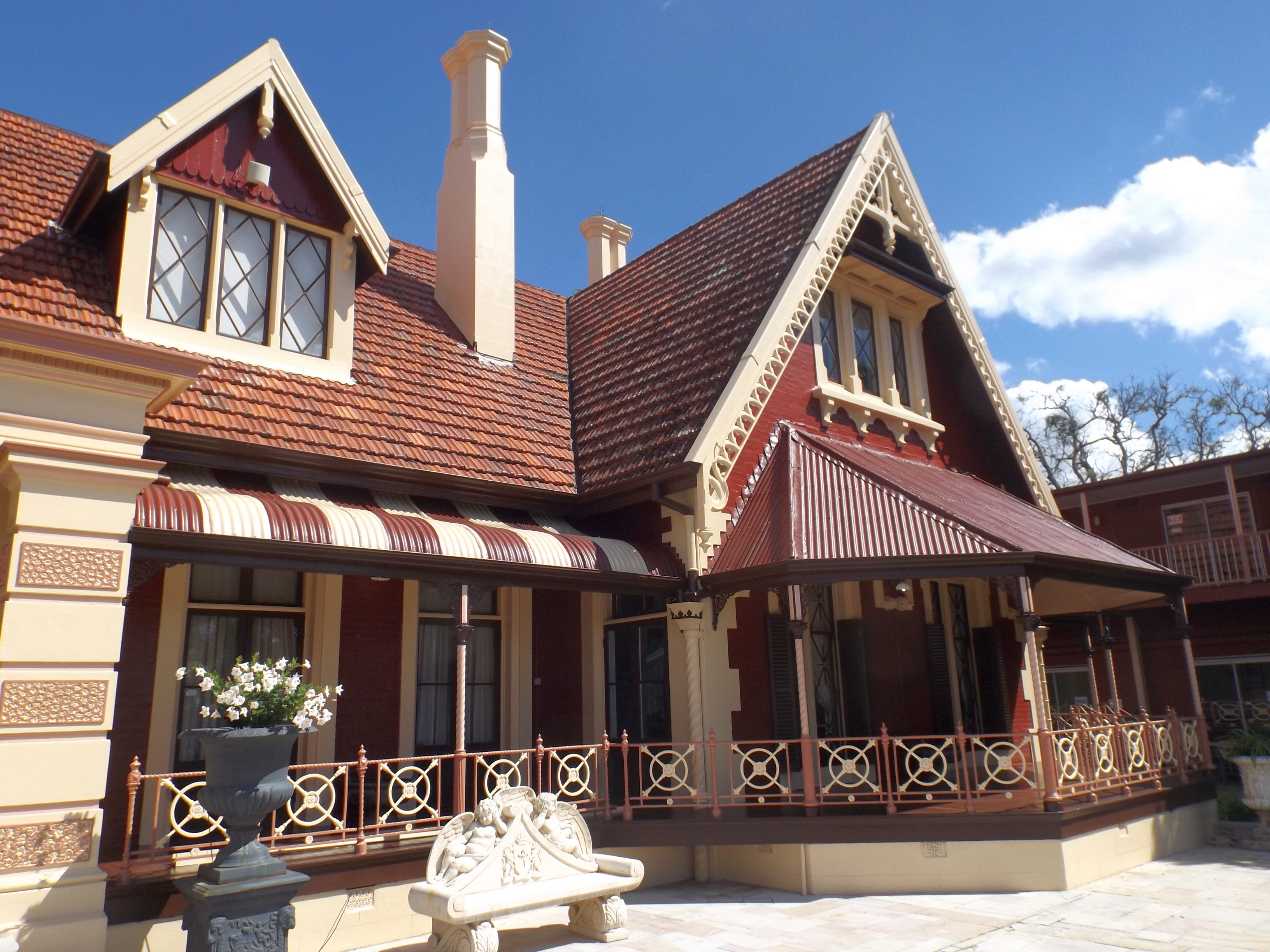 Photo of Shafston House at Kangaroo Point, Brisbane, Queensland, Australia.